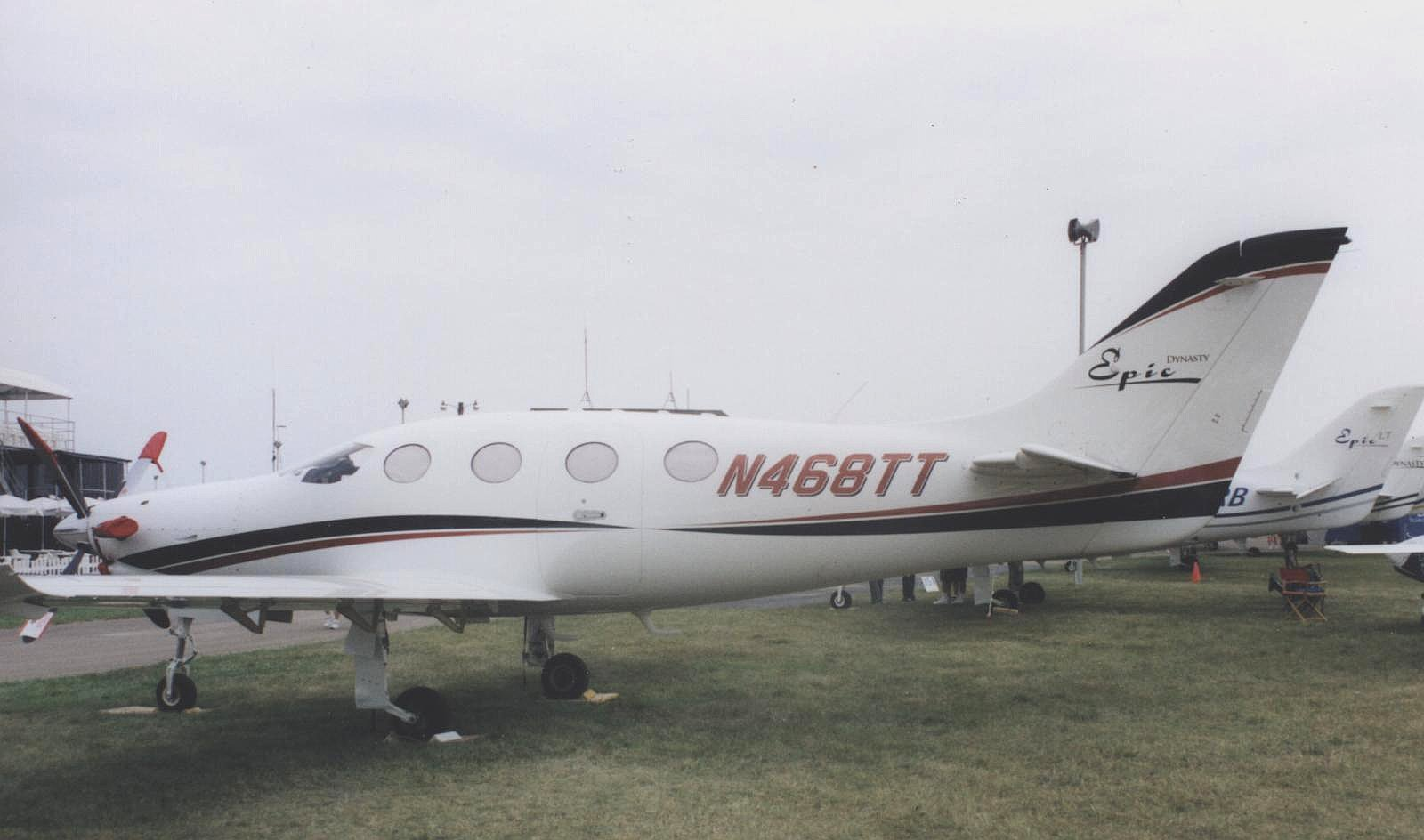 Epic LT Dynasty N468TT at the EAA Show at Oshkosh, Wisconsin